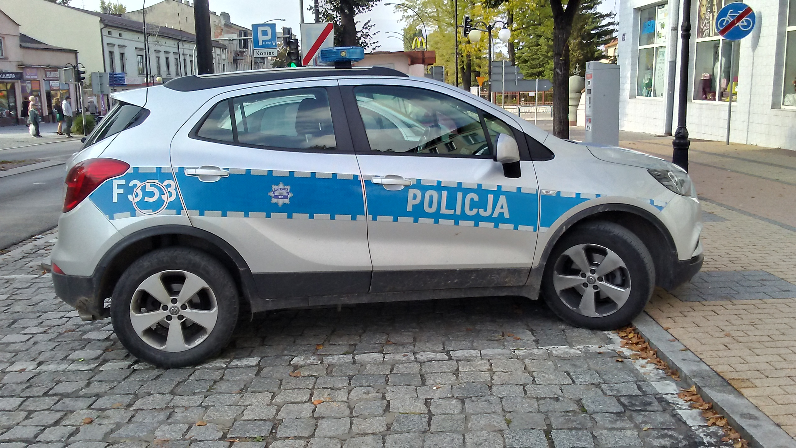 Police vehicle in Tomaszów Mazowiecki